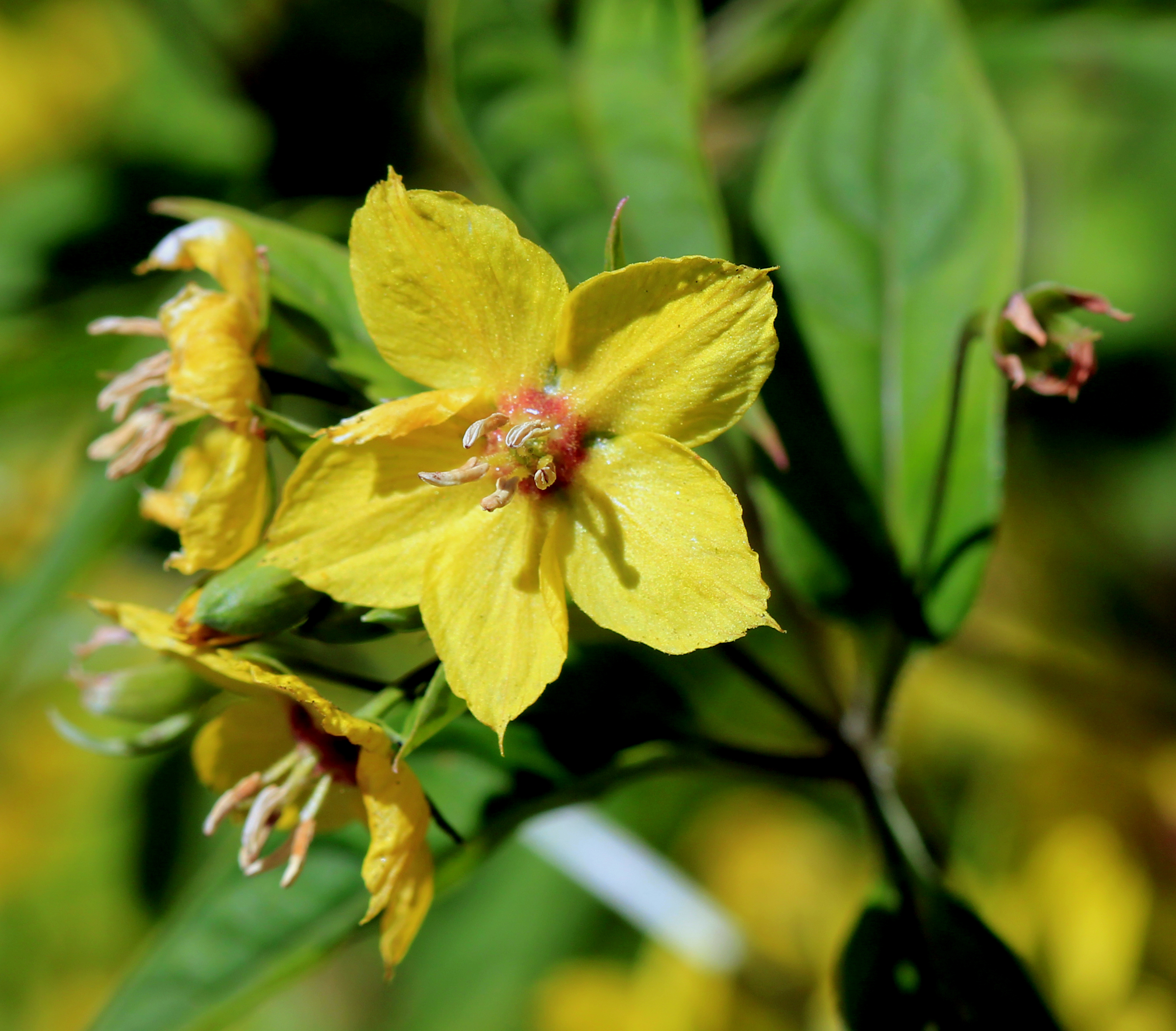 Detail of flower of plant Lysimachia ciliata or Lysimachia ciliata from the Botanical Gardens of Charles University, Prague, Czech Republic